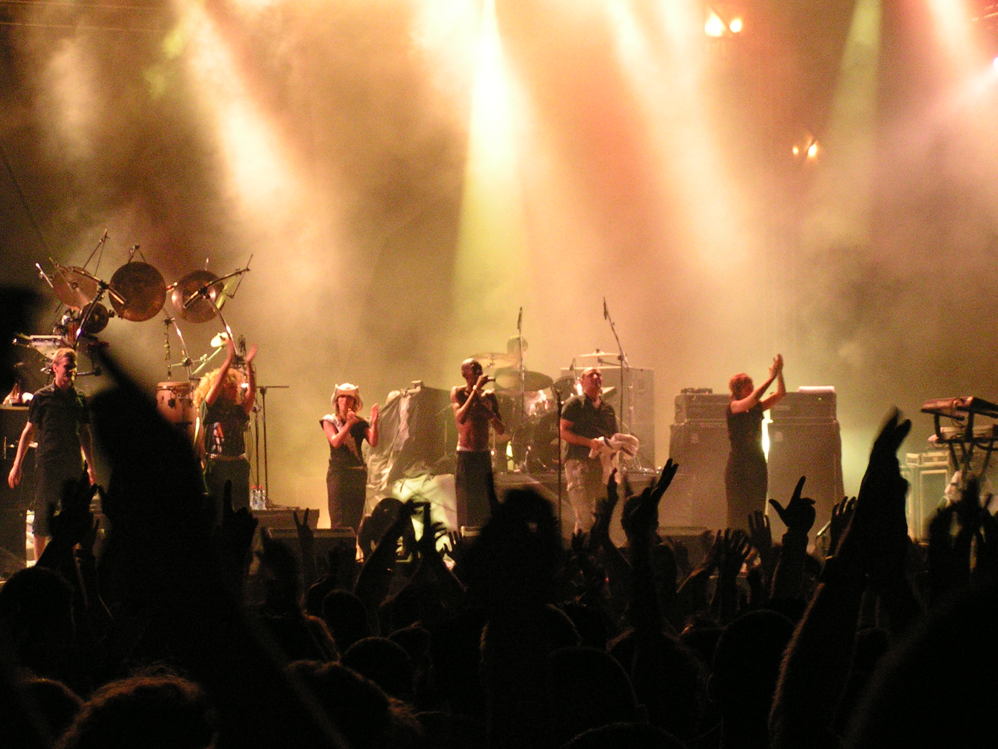 Faithless at the Orange Music Experience Festival, Haifa 2005